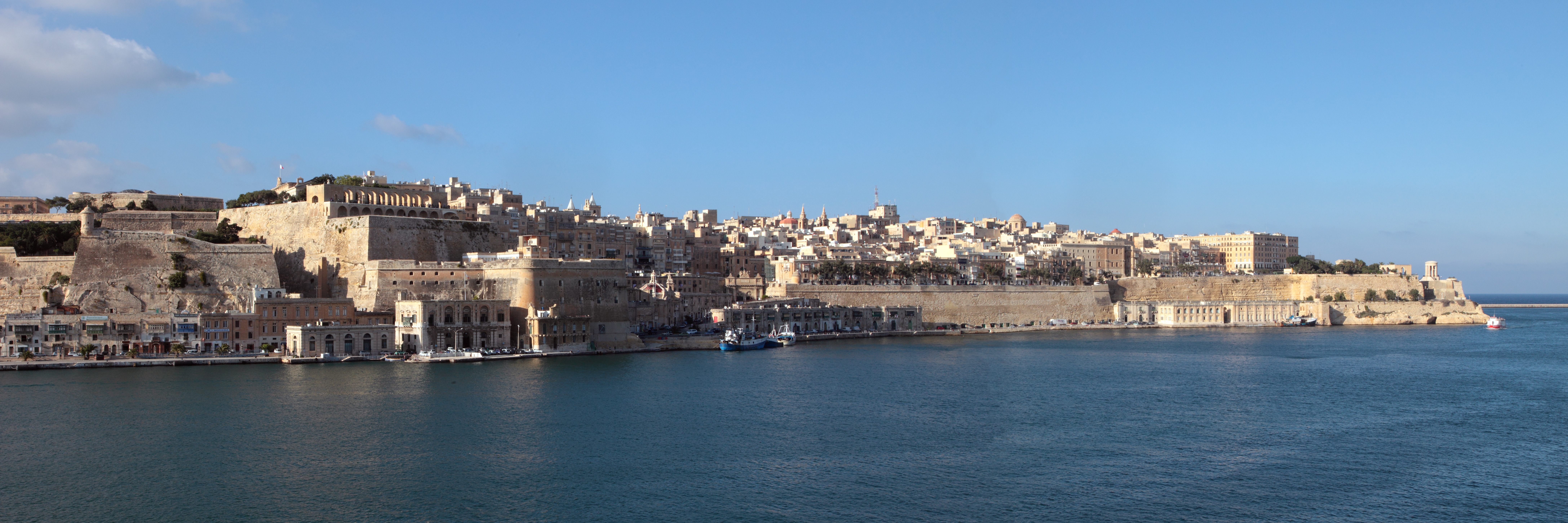 Valletta, seen from Senglea